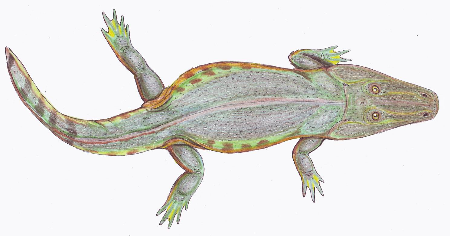 Tryphosuchus